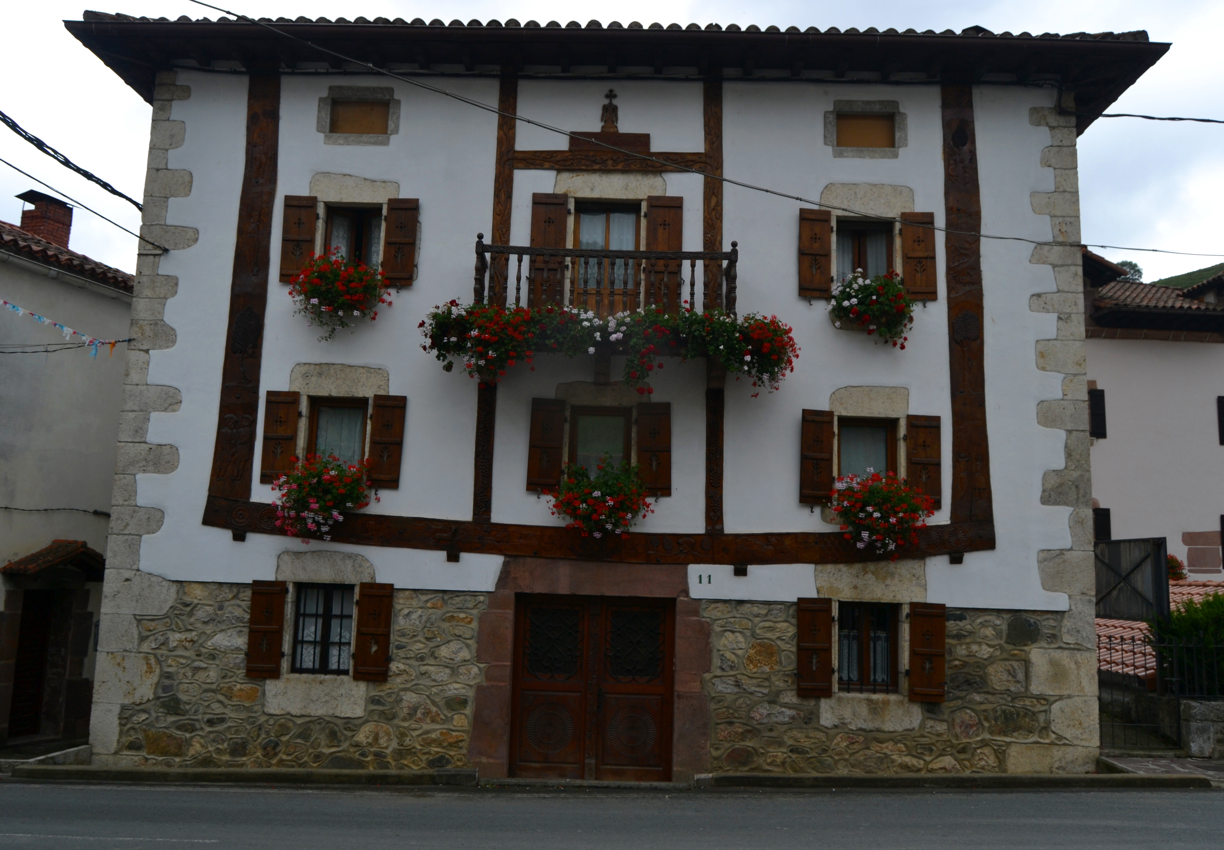 Etxatoa, Almandoz. Baztan, Navarre. Basque Country.